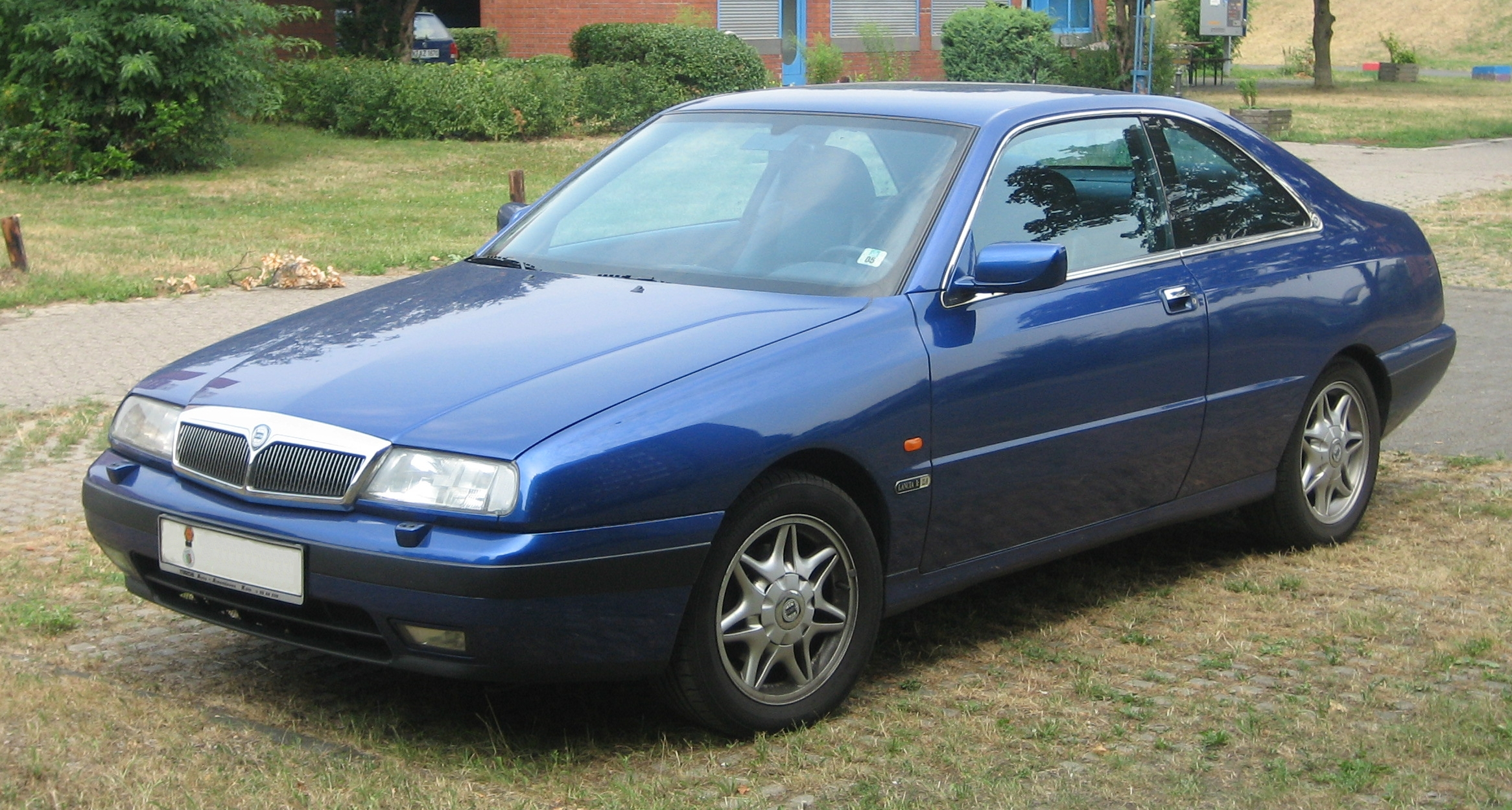 Lancia Kappa Coupé, blue, photographed in Efferen, Germany